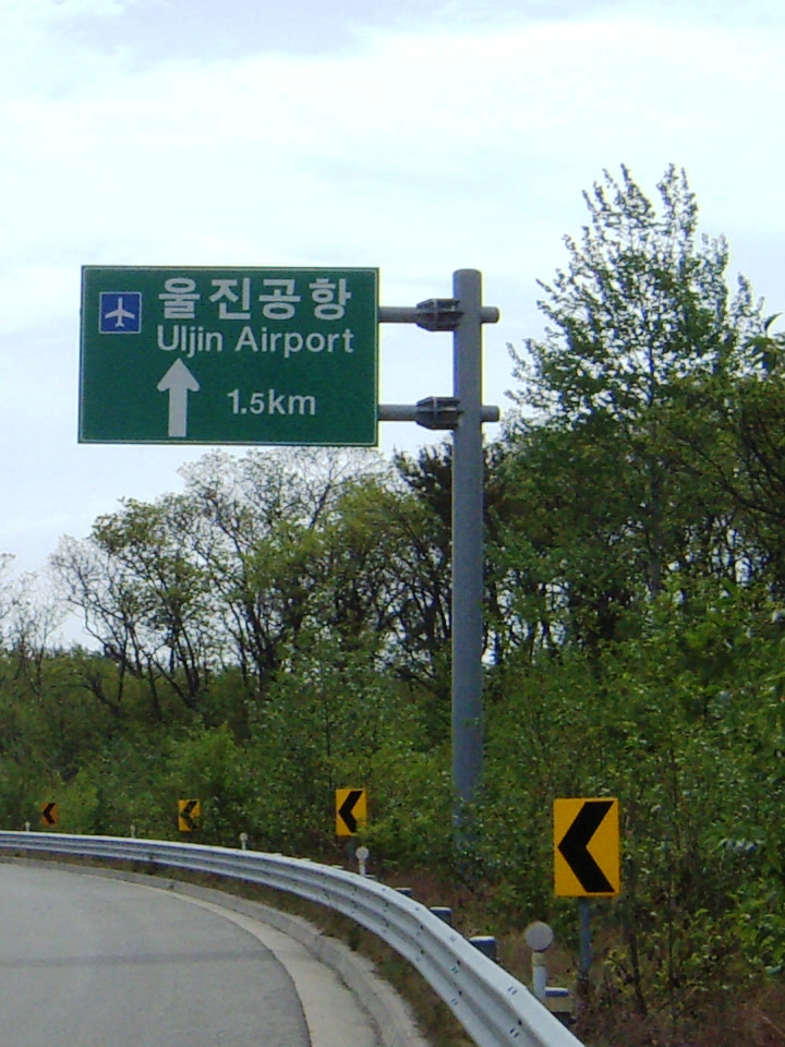 A directional sign on the southern approach road to Uljin airport